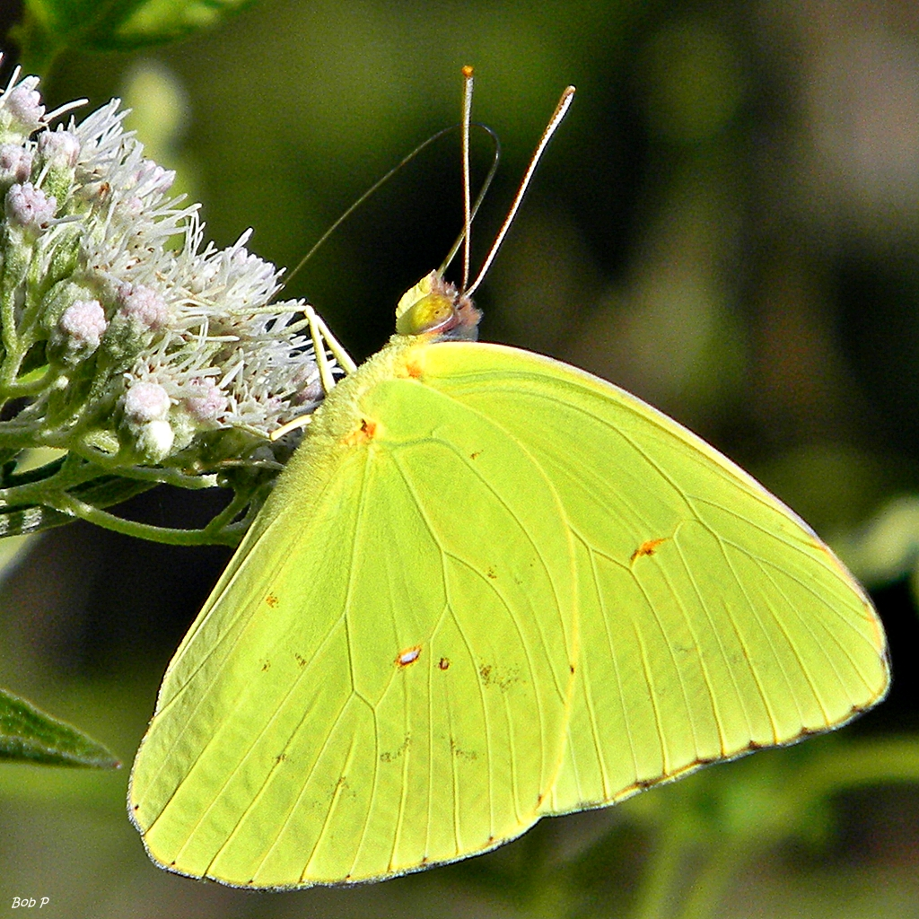 Cloudless sulphur on lateflowering thoroughwort blossoms on a cloudless morning. "Just living is not enough," said the butterfly, "one must have sunshine, freedom and a little flower." ~Hans Christian Andersen